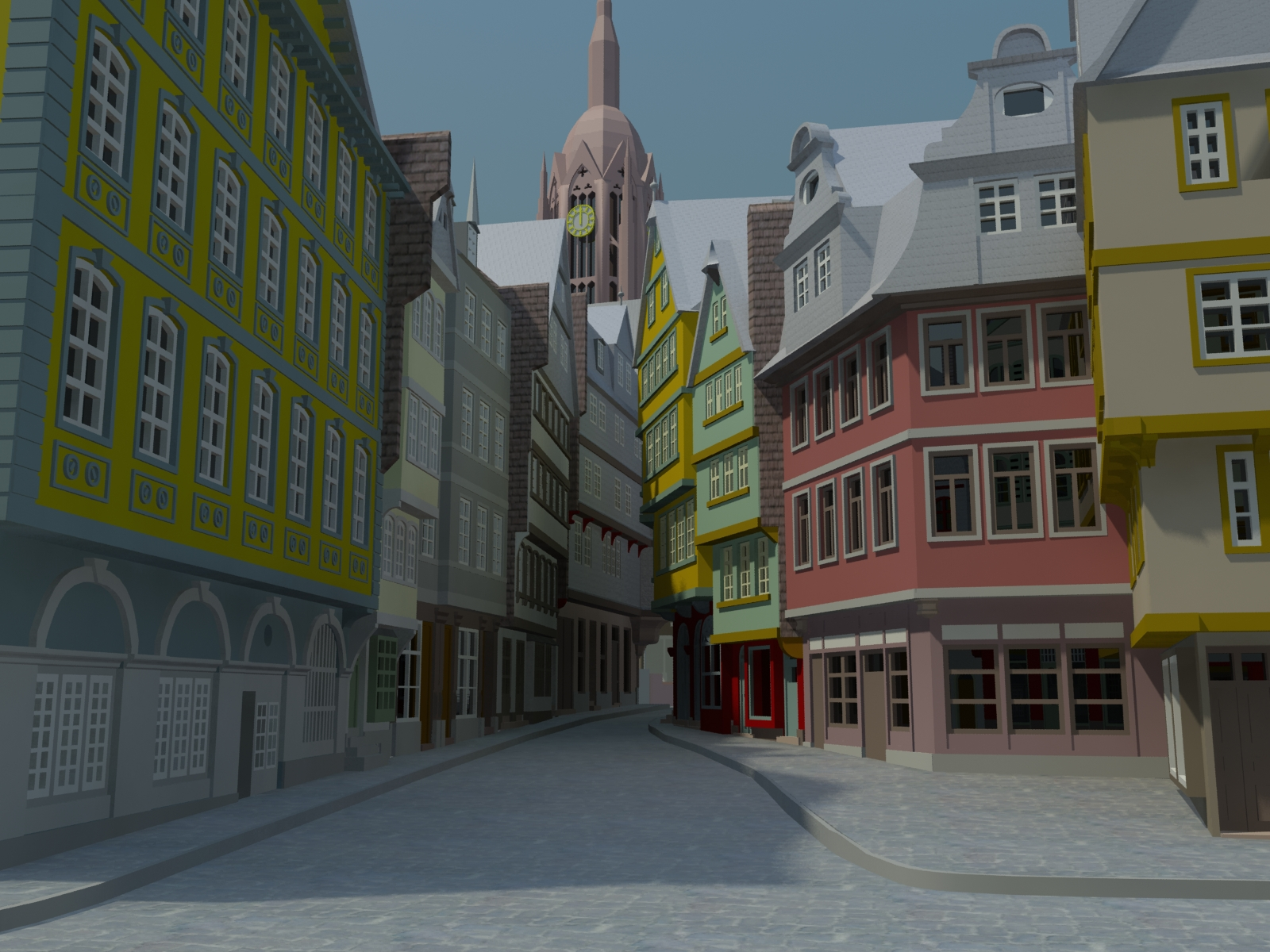 Frankfurt on the Main: Kannengiessergasse (Can Casters Lane) as seen to the west from the Fahrgasse (Drive Lane)